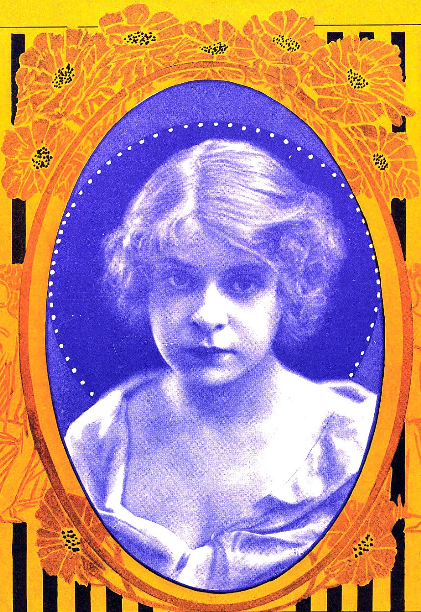 Photo of sheet music "Take Me to the Midnight Cake Walk Ball". The sheet music carries a photo of actress Daphne Pollard.